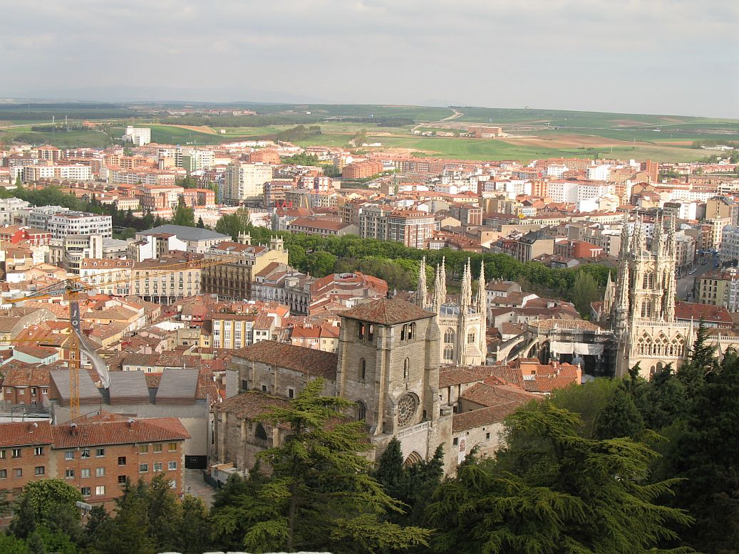 View of the city of Burgos, Spain.